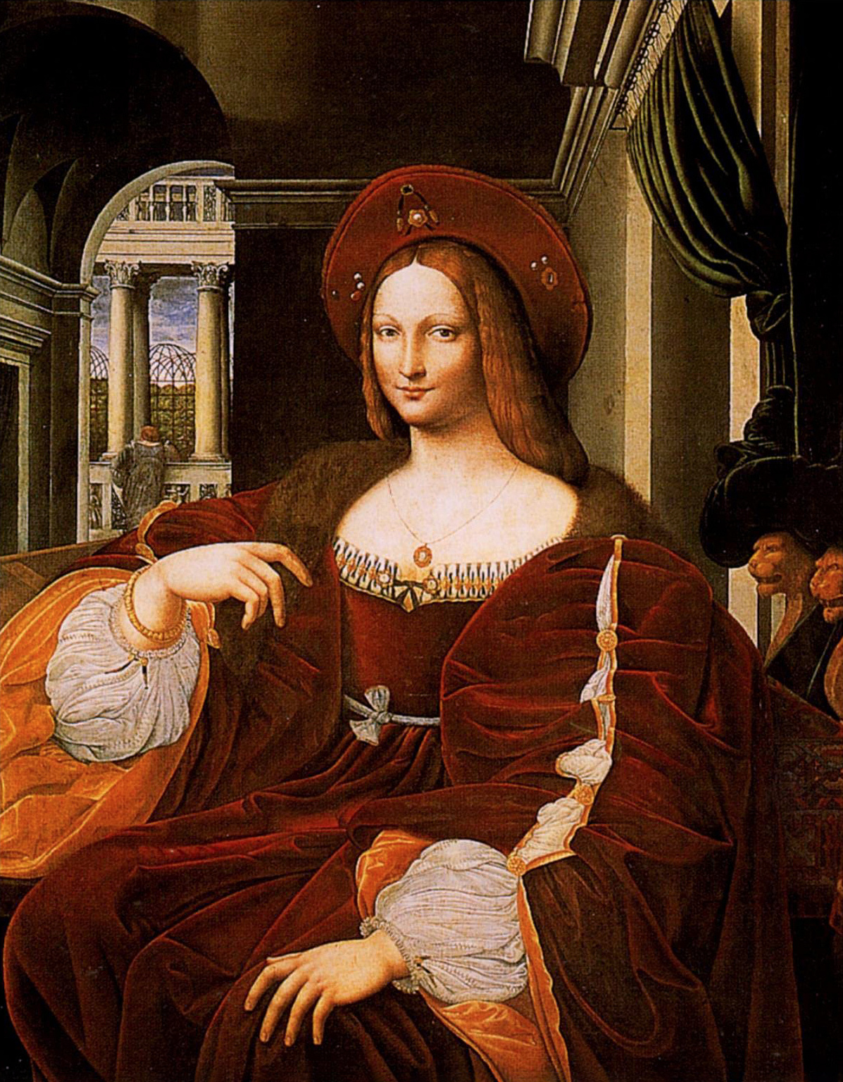 Portrait d'Isabelle d'Aragon (Isabella of Naples)